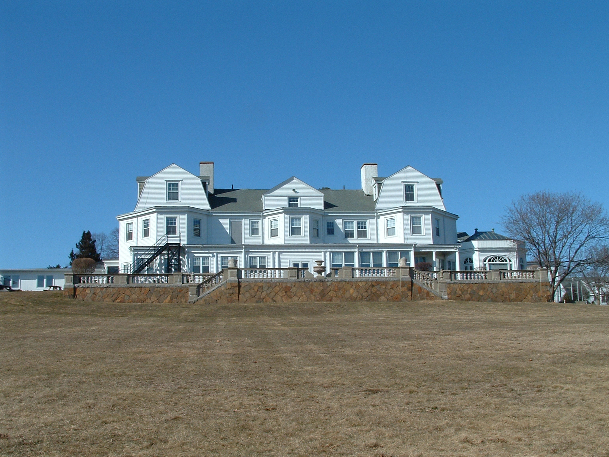 Marian Court College, Swampscott, Massachusetts, seaside view